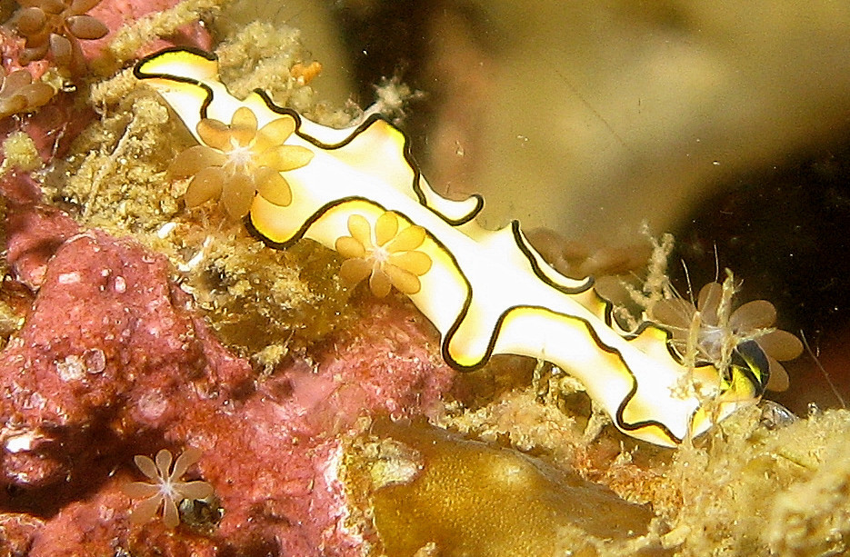 Pseudoceros sp.